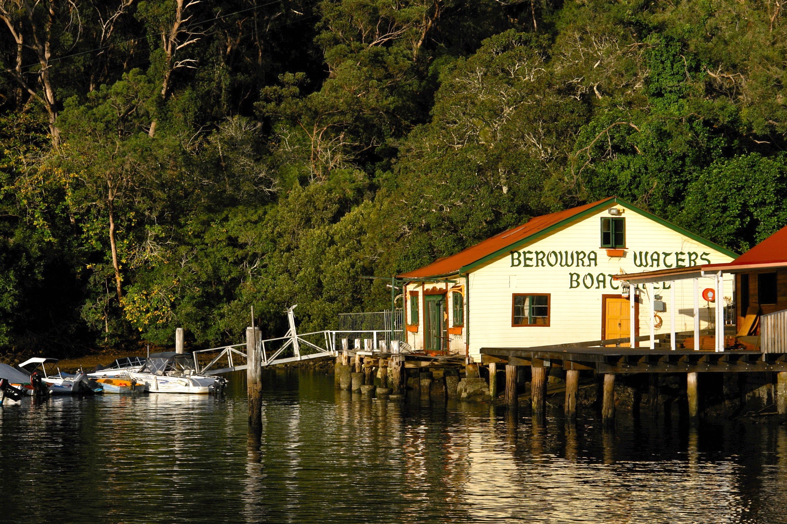 Berowa Waters Boathouse, North of Sydney, Australia